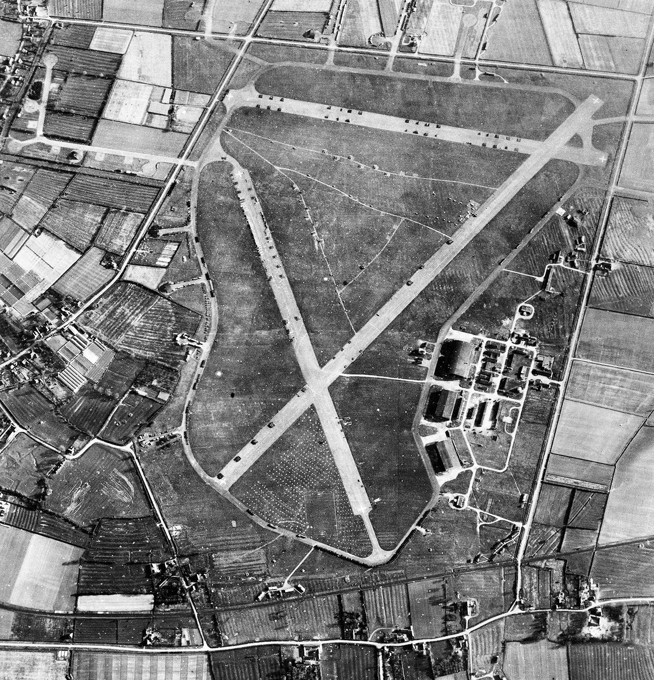 Aerial photograph of Goxhill airfield , the control tower and technical site with two T2 hangars and a J-Type hangar is on the right, 29 April 1947. Photograph taken by No. 58 Squadron, sortie number RAF/CPE/UK/2043. English Heritage (RAF Photography).